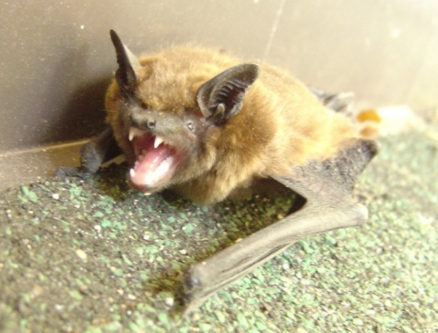 Picture: Bat on Roof OWNER: Own Work Daate: Take September 2006 in the early morning Bat was found behind house wrap Author: Carolyn